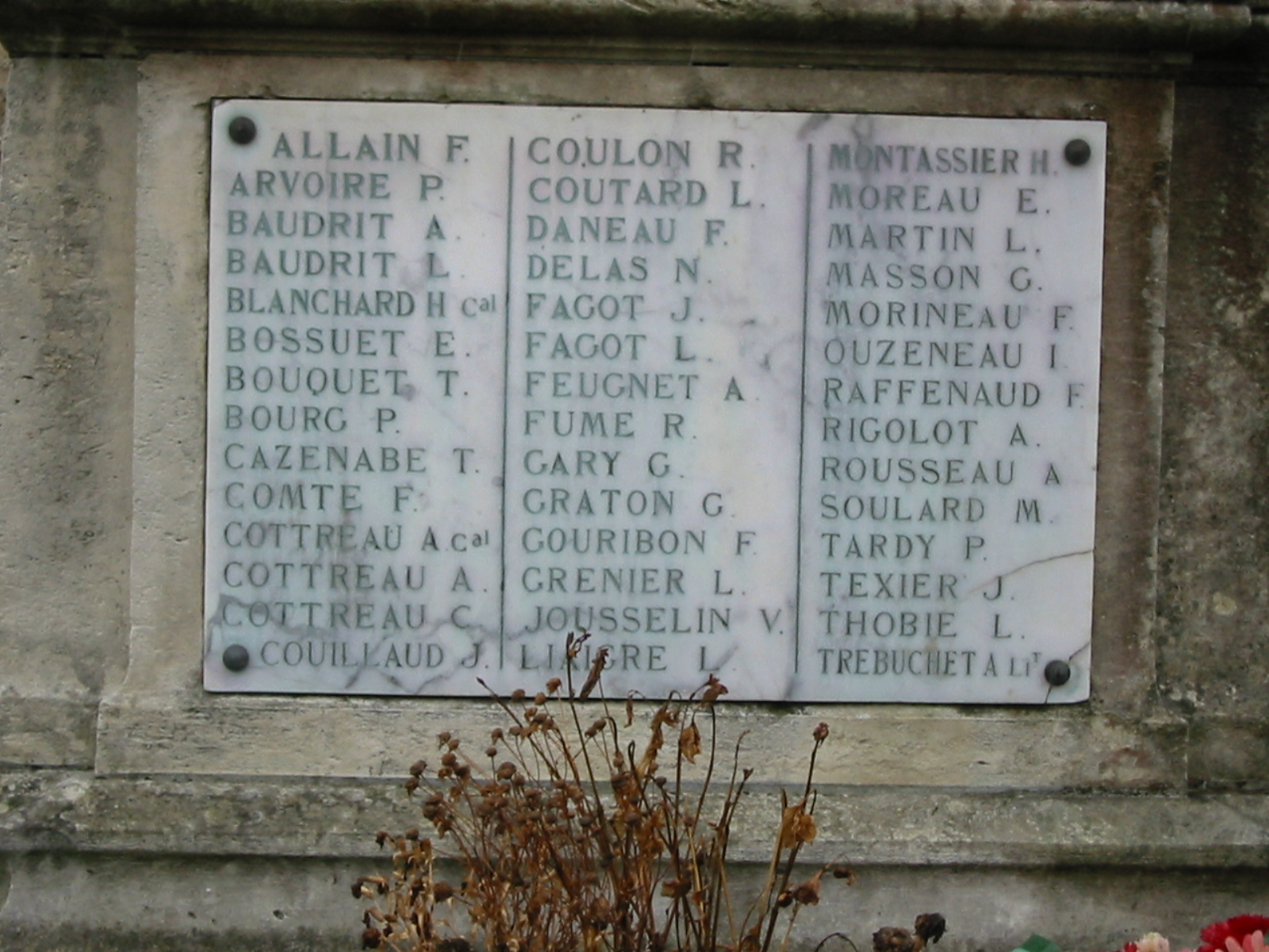 First and second World War Monument